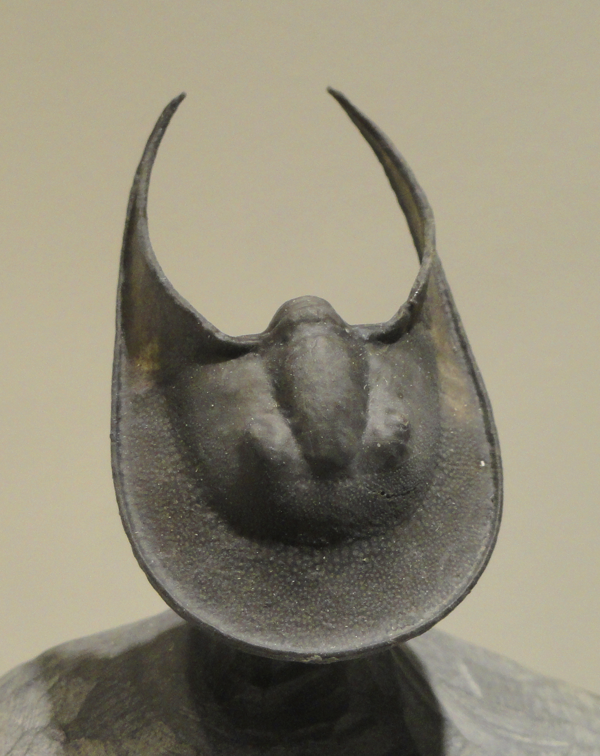 Exhibit in the Houston Museum of Natural Science, Houston, Texas, USA.